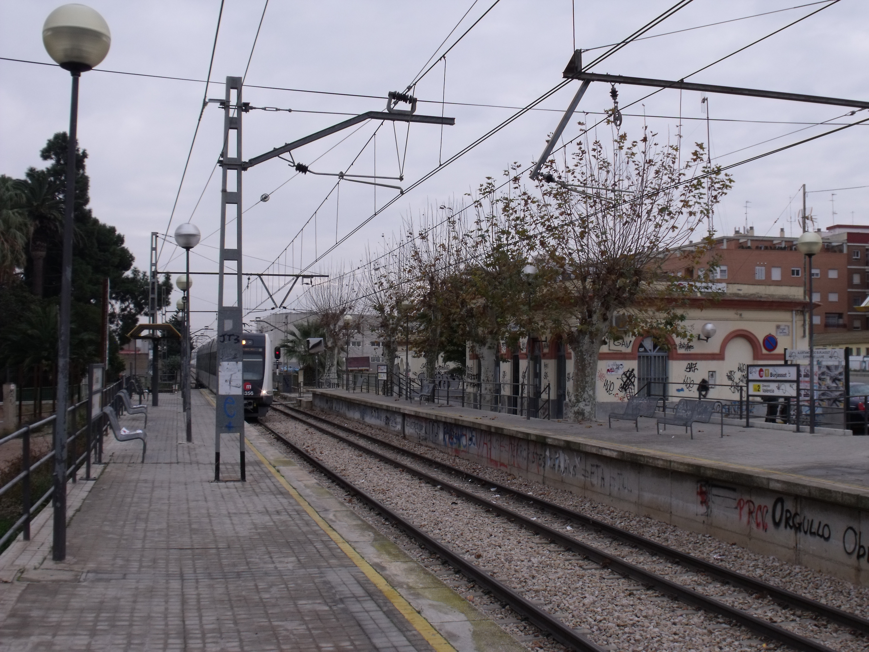 Burjassot station, in Metro Valencia network.